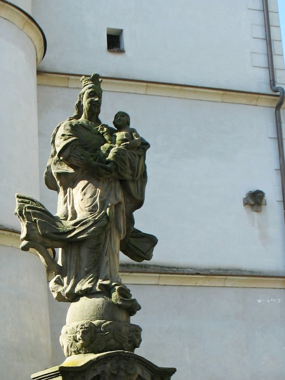 Satue of Madona from Knířov, now in Vysoké Mýto near church of St. Lawrence, Czech Republic